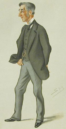 Caricature of Sir Henry Elliot (1817-1907). Caption reads "Ambassador to the Porte".